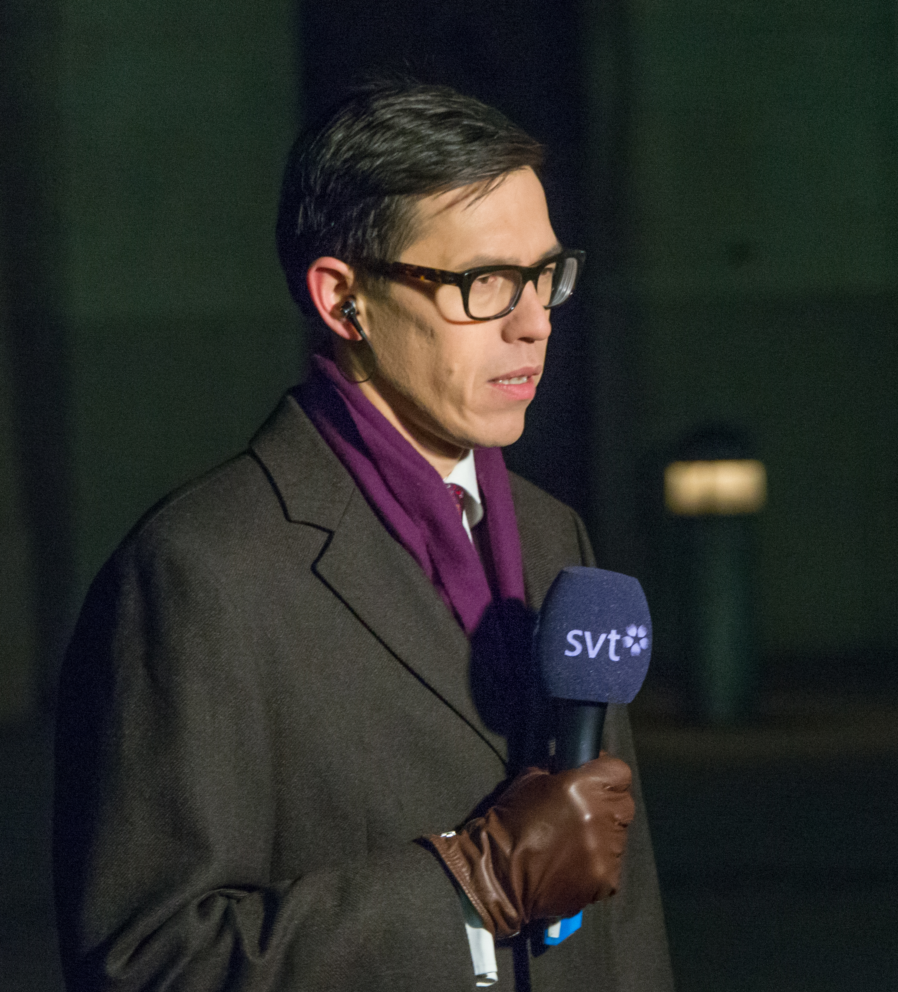 Love Benigh, SVT, outside Rosenbad on December 2, 2014 after the Government called for a crisis meeting with the Alliance after the Swedish Democrats, (SD), earlier in the day voted to vote for the alliance budget.